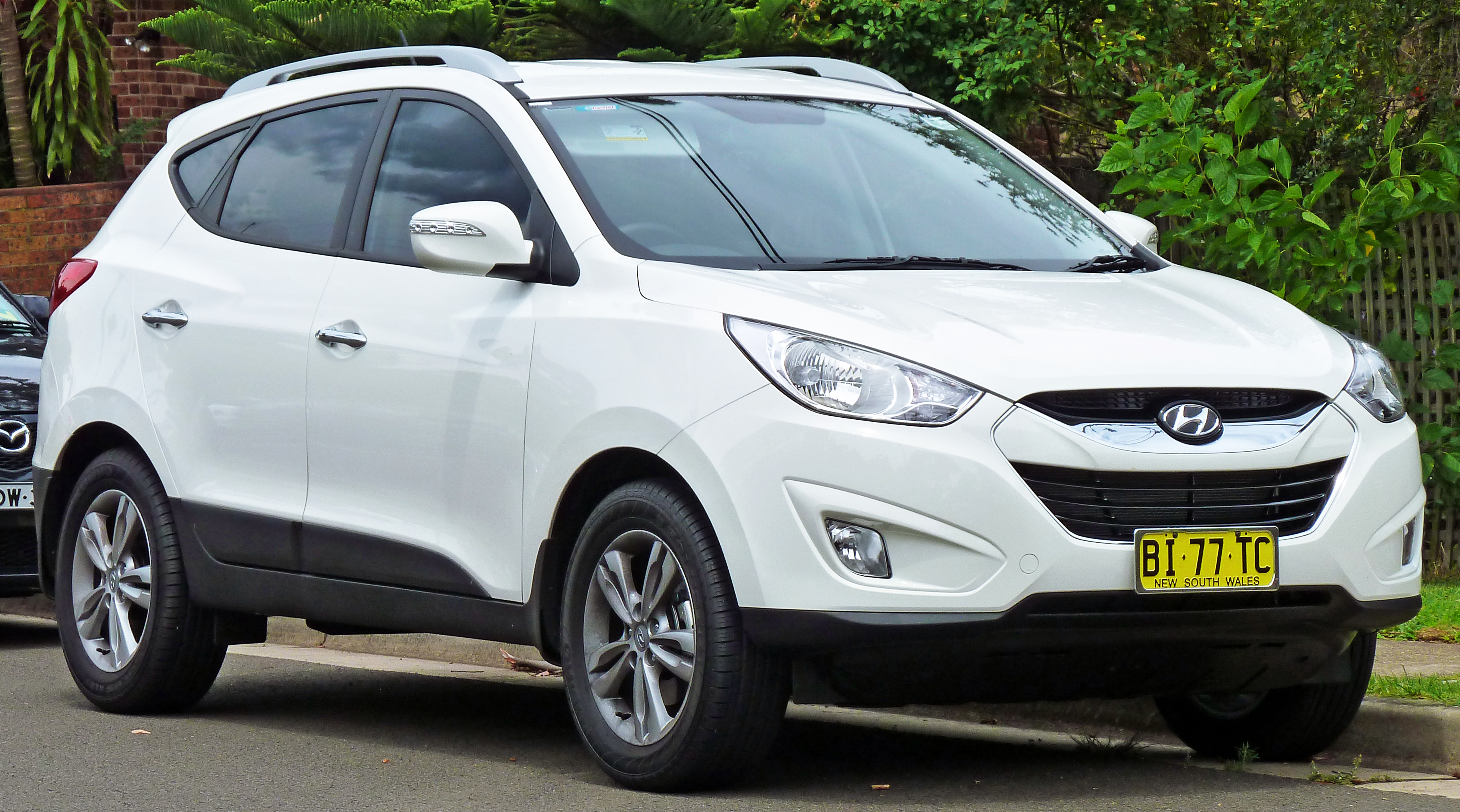 2010 Hyundai ix35 (LM) Elite wagon. Photographed in Gymea, New South Wales, Australia.